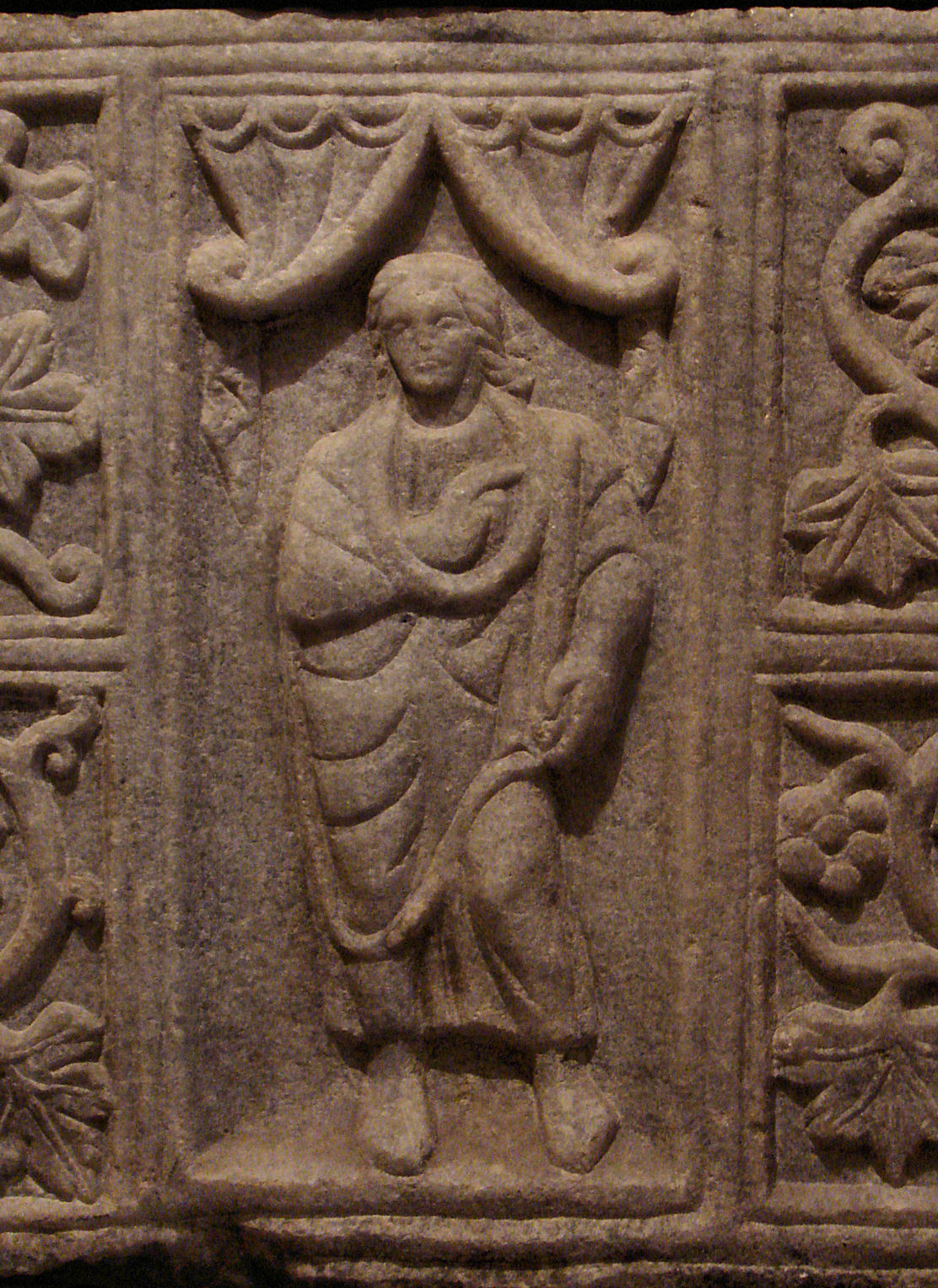 Early image of Jesus Christ, Sarcophagus, Castelnau-de-Guers, Herault, France, 6thCentury.